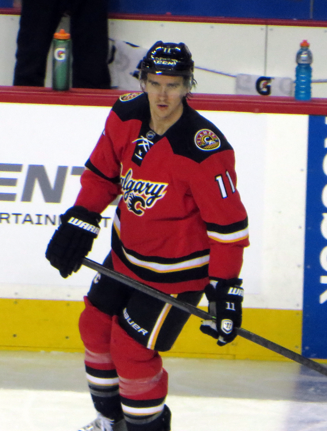 Calgary Flames forward Mikael Backlund prior to a National Hockey League game against the New York Rangers.